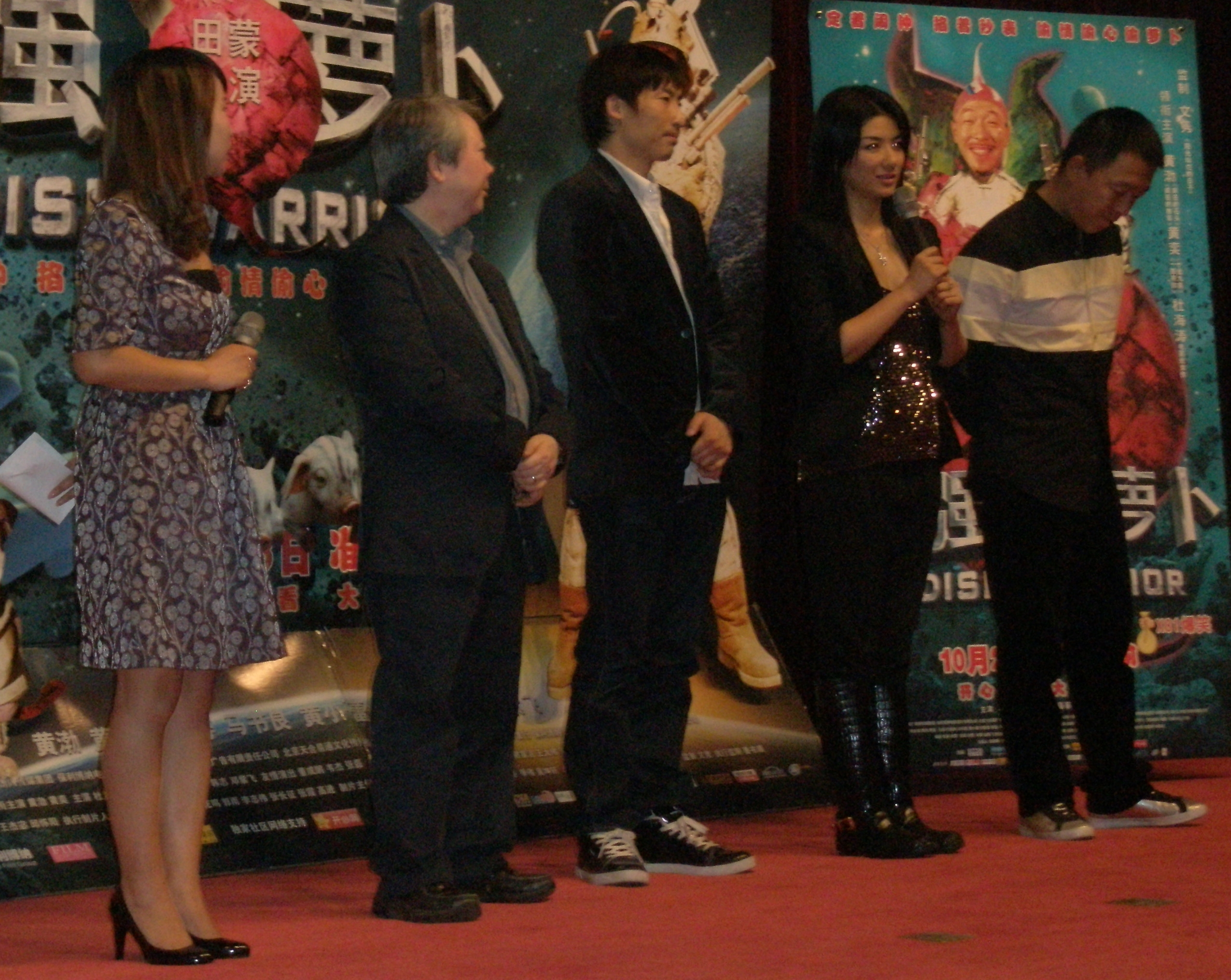 movie,nanjing